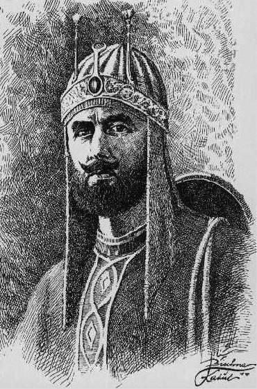 Sher Shah Suri, founder of the Sur Empire in northern India in the 16th century. He defeated the powerful Mughal Empire under Humayun but died 5 years later due to an accident while loading a cannon. He was an ethnic Afghan (now Pashtun) but was born in what is now India.